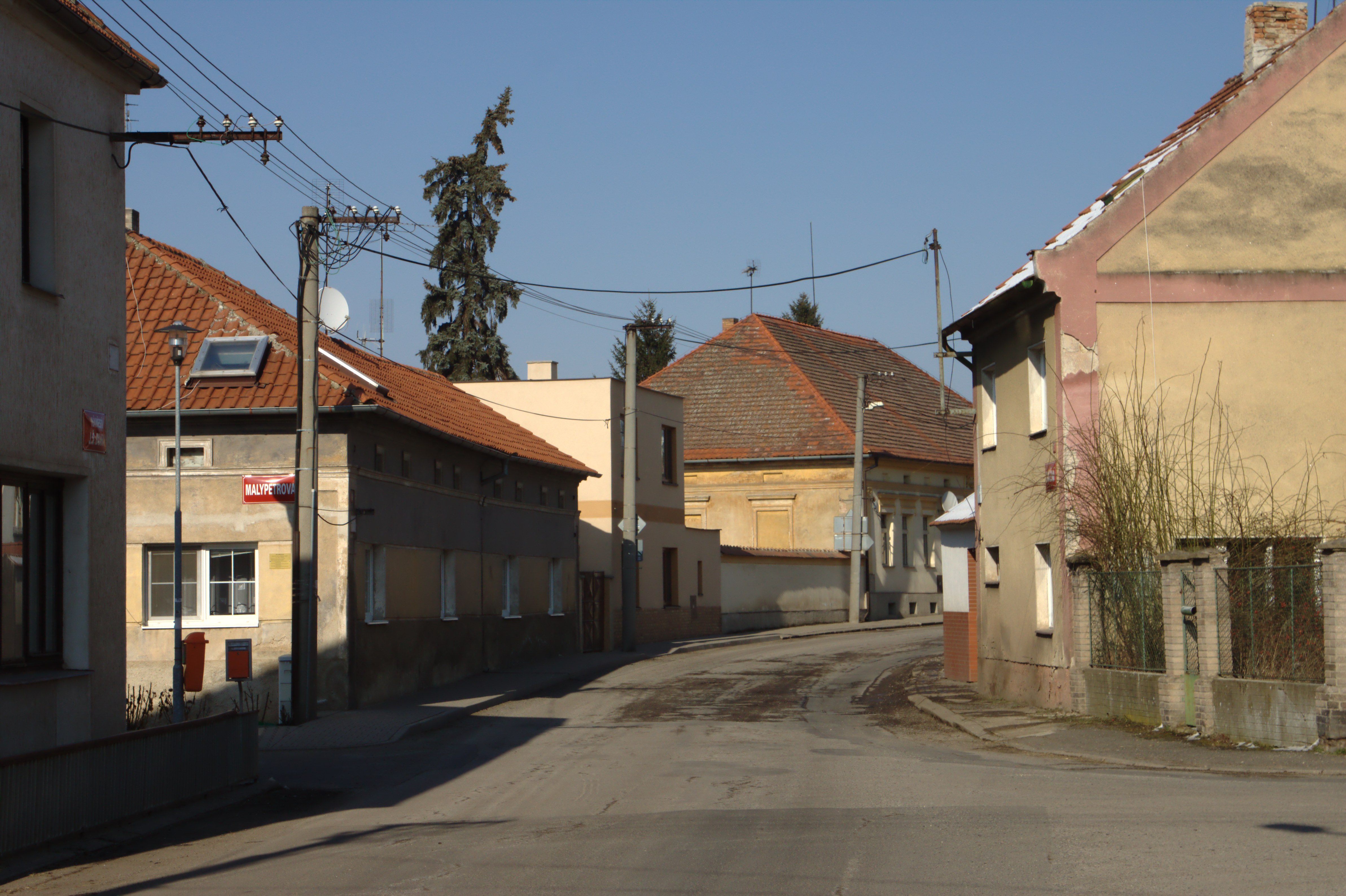 A road in central part of the town of Klobuky, Central Bohemian Region, CZ